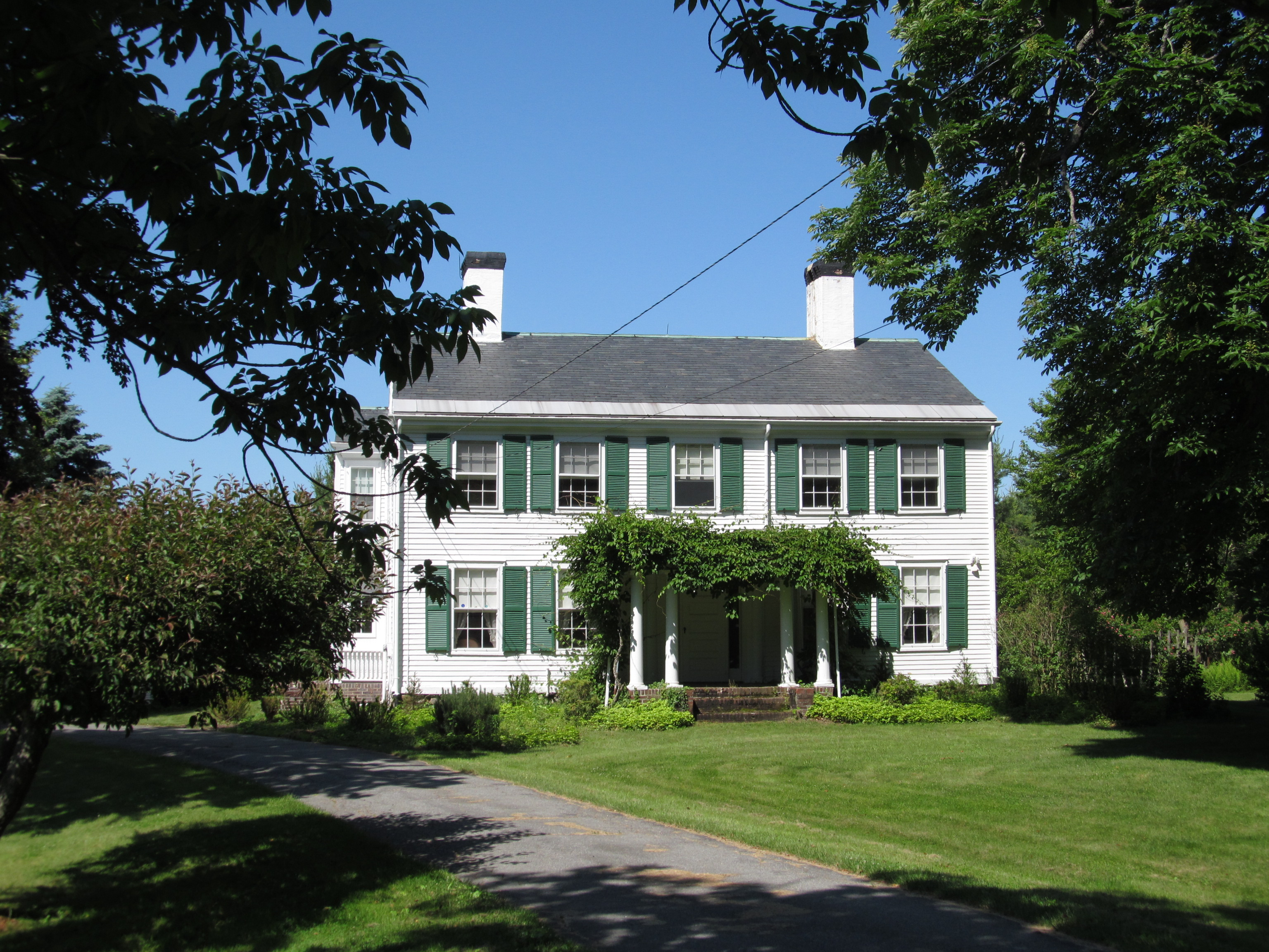 Tattersall Farm, Haverhill Massachusetts